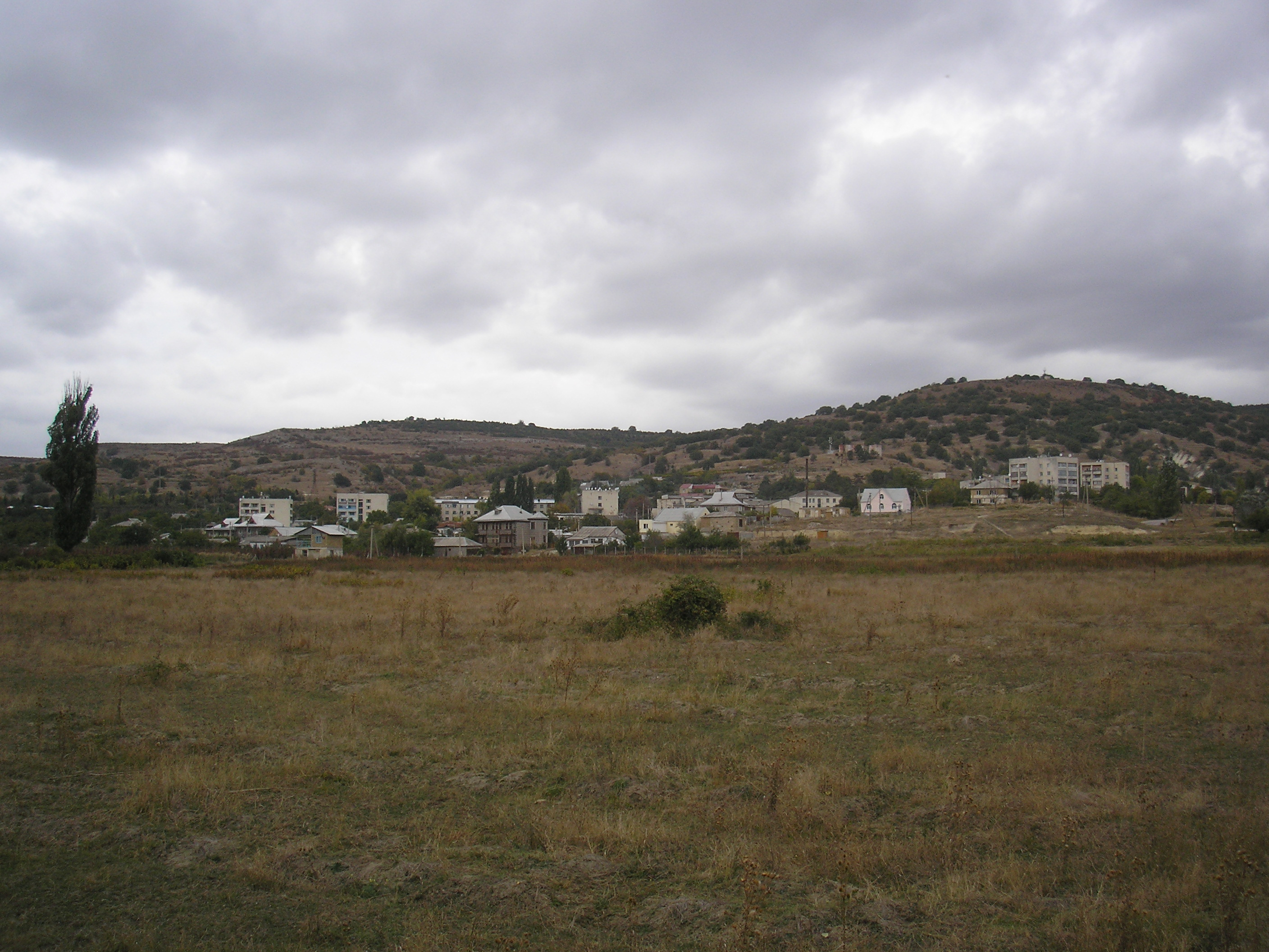 Village Dolinnoe, Bakhchisaray district, Crimea